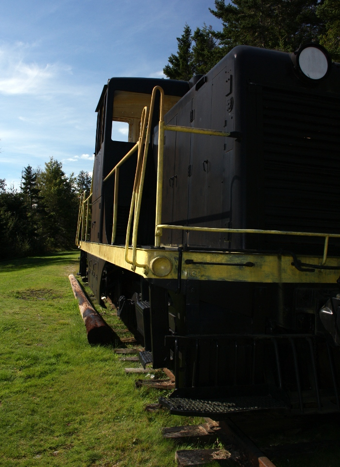 Part of the Musquodoboit Harbour Railway Museum, Highway 7 (Marine Drive), Musquodoboit Harbour, Nova Scotia. Photographed 28 Sept. 2012 by Stephanie Clay.